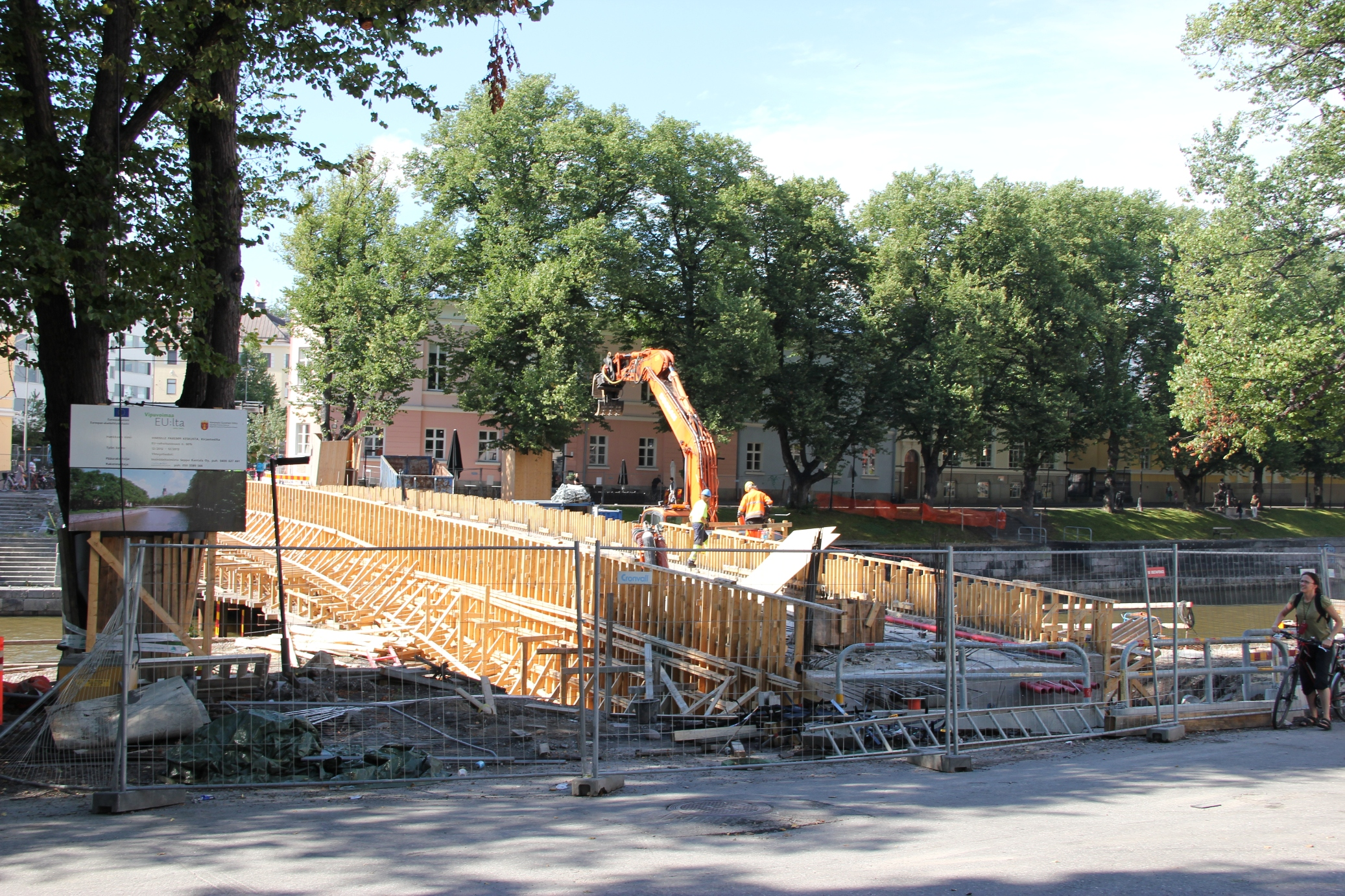 Kirjastosilta ("Library Bridge") in Turku, Finland July 2013